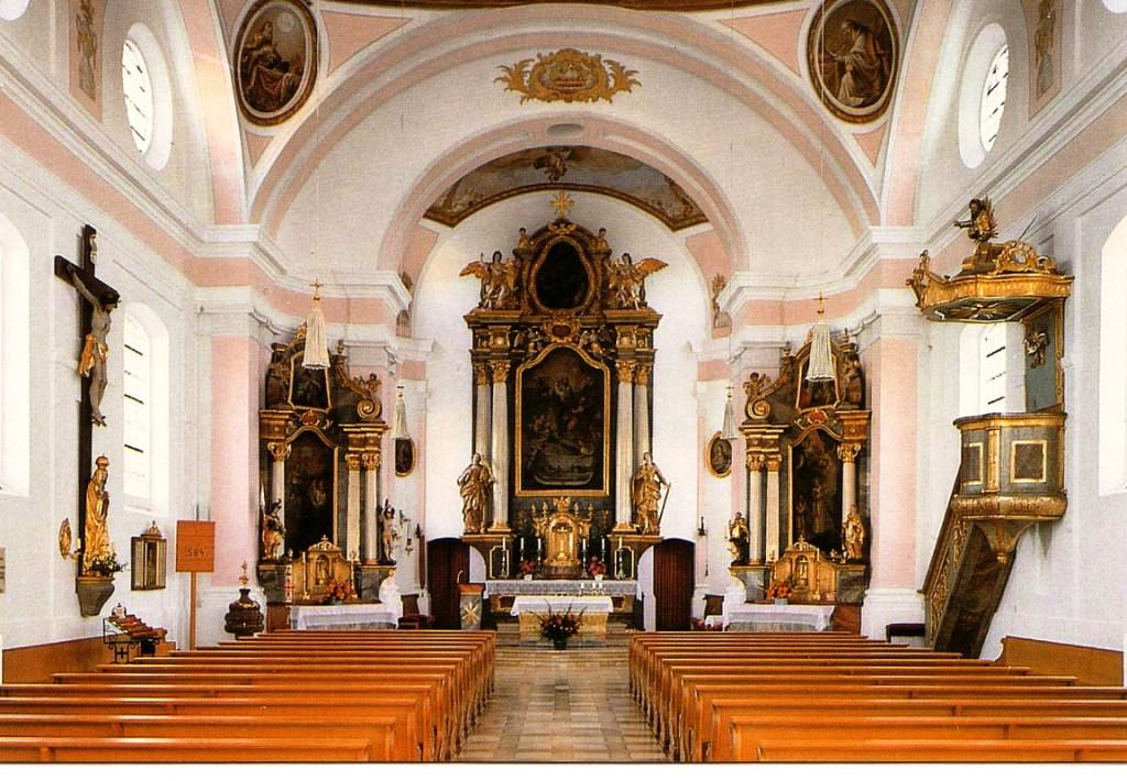 St. Josef Allershausen Interior